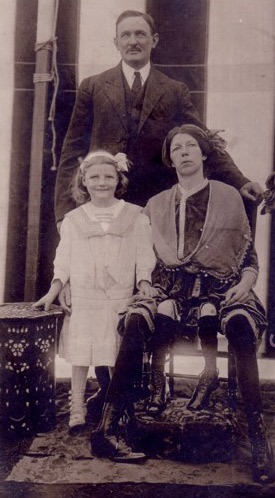 Myrtle Corbin with husband and daughter